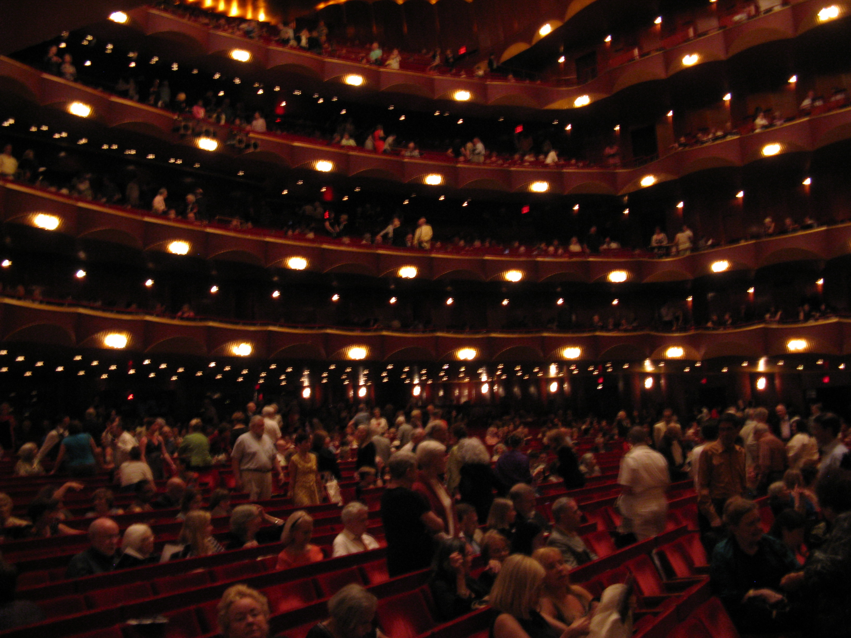 Metropolitan Opera House